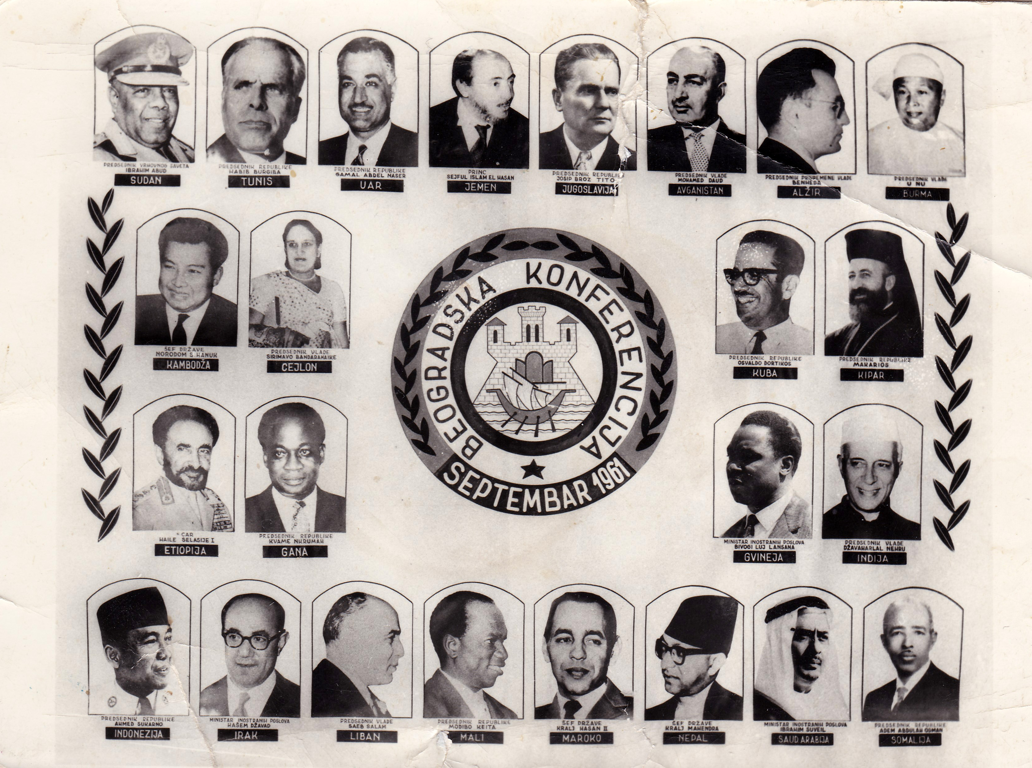 Belgrade Conference, September 1961.